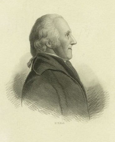 Engraving depicting American Revolutionary War general James Clinton.